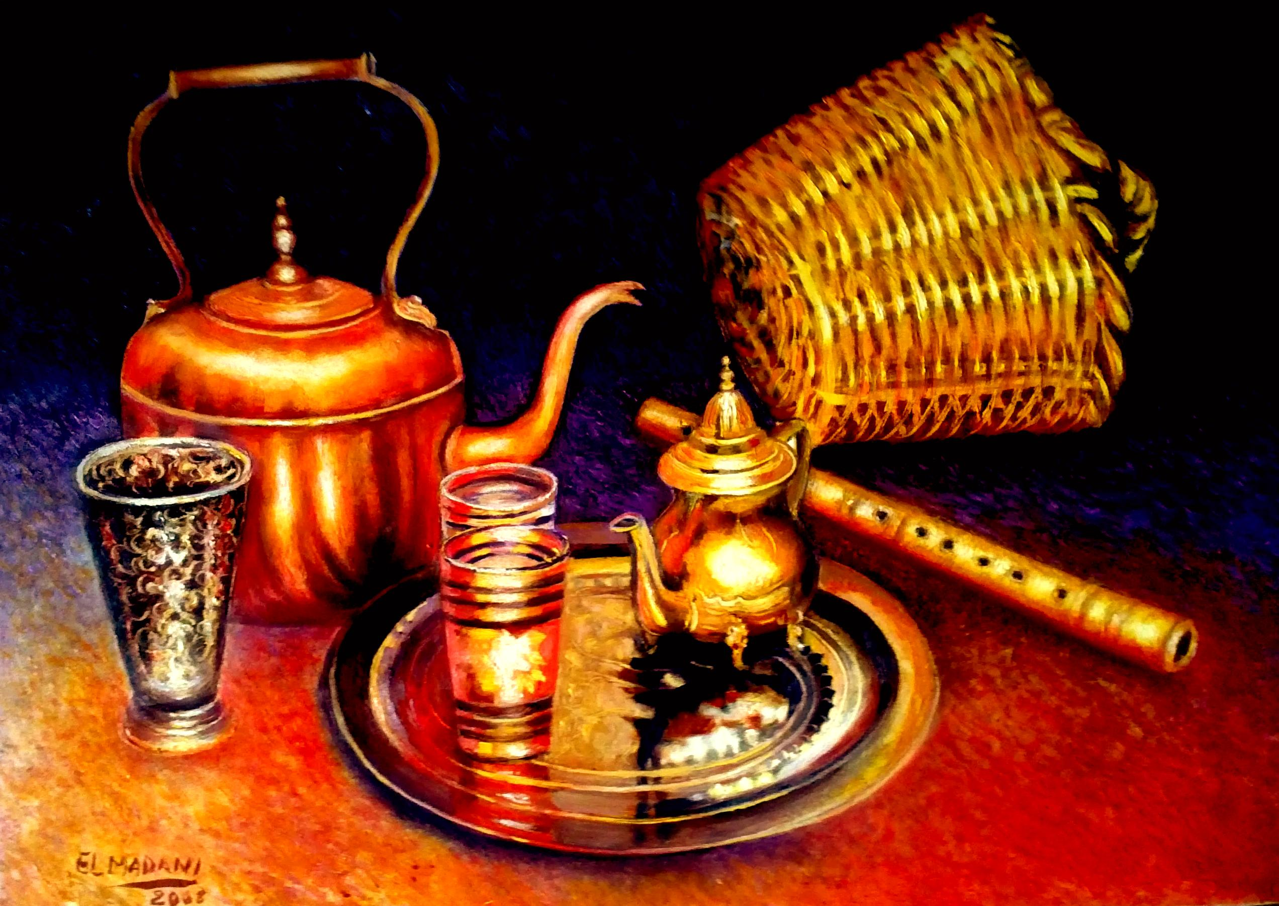 Still life Oil on canvas 70x5Ocm 2010 signed Elmadani